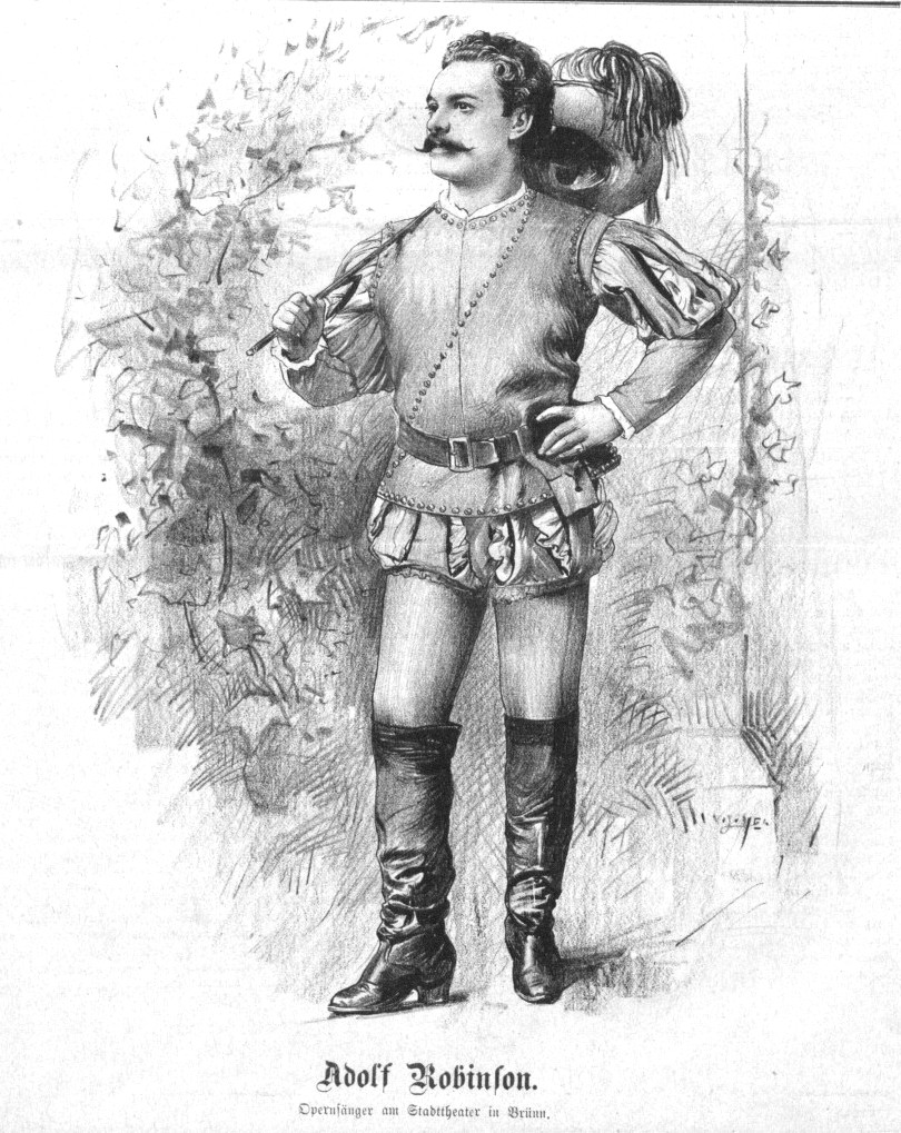 Portrait of Adolf Robinson (1838-1920), Austrian opera singers